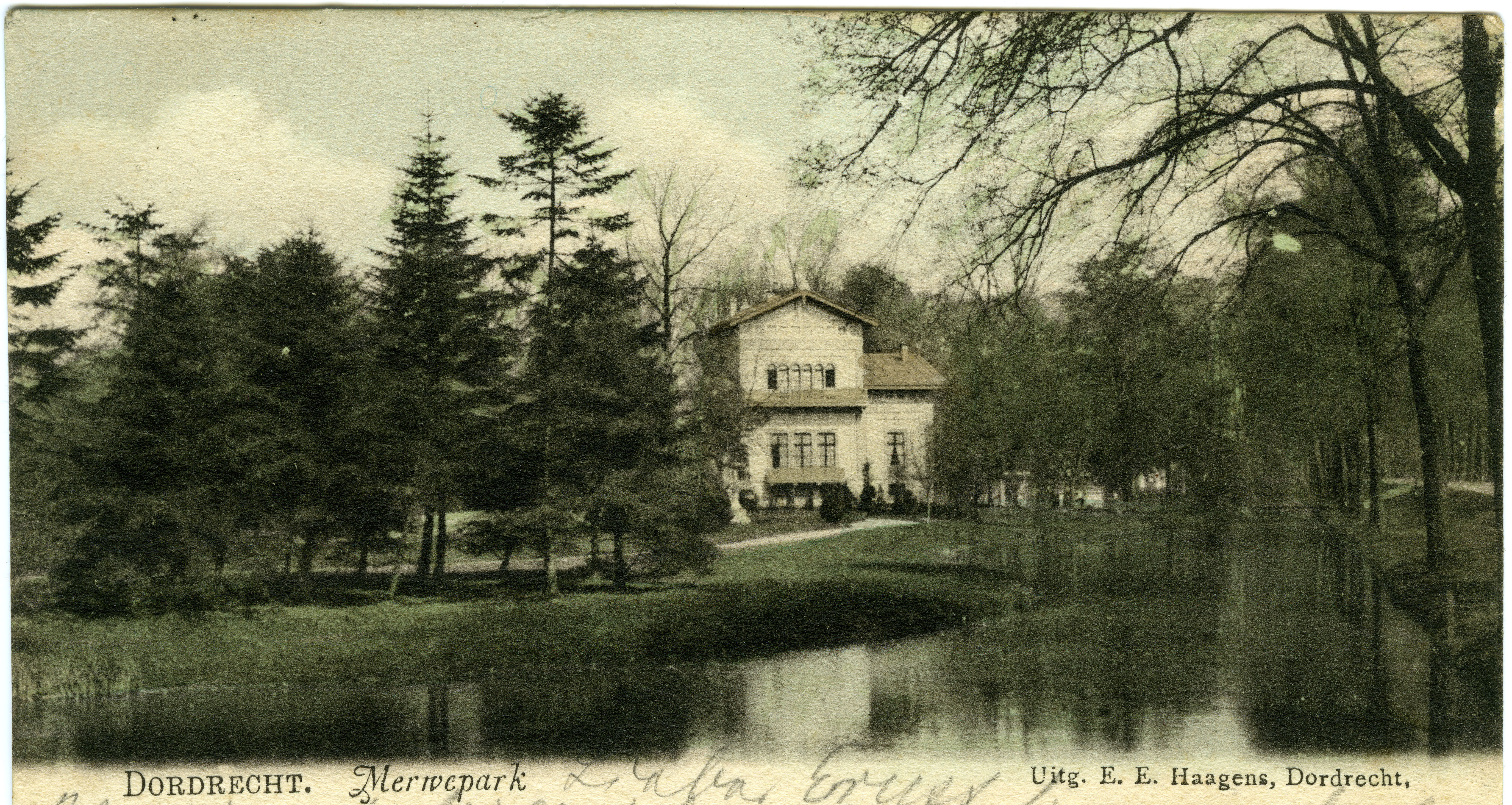 Postcard from Dordrecht in 1901, showing the pavillion in Merwepark prior to its destruction by bombardment in 1944 (WWII).